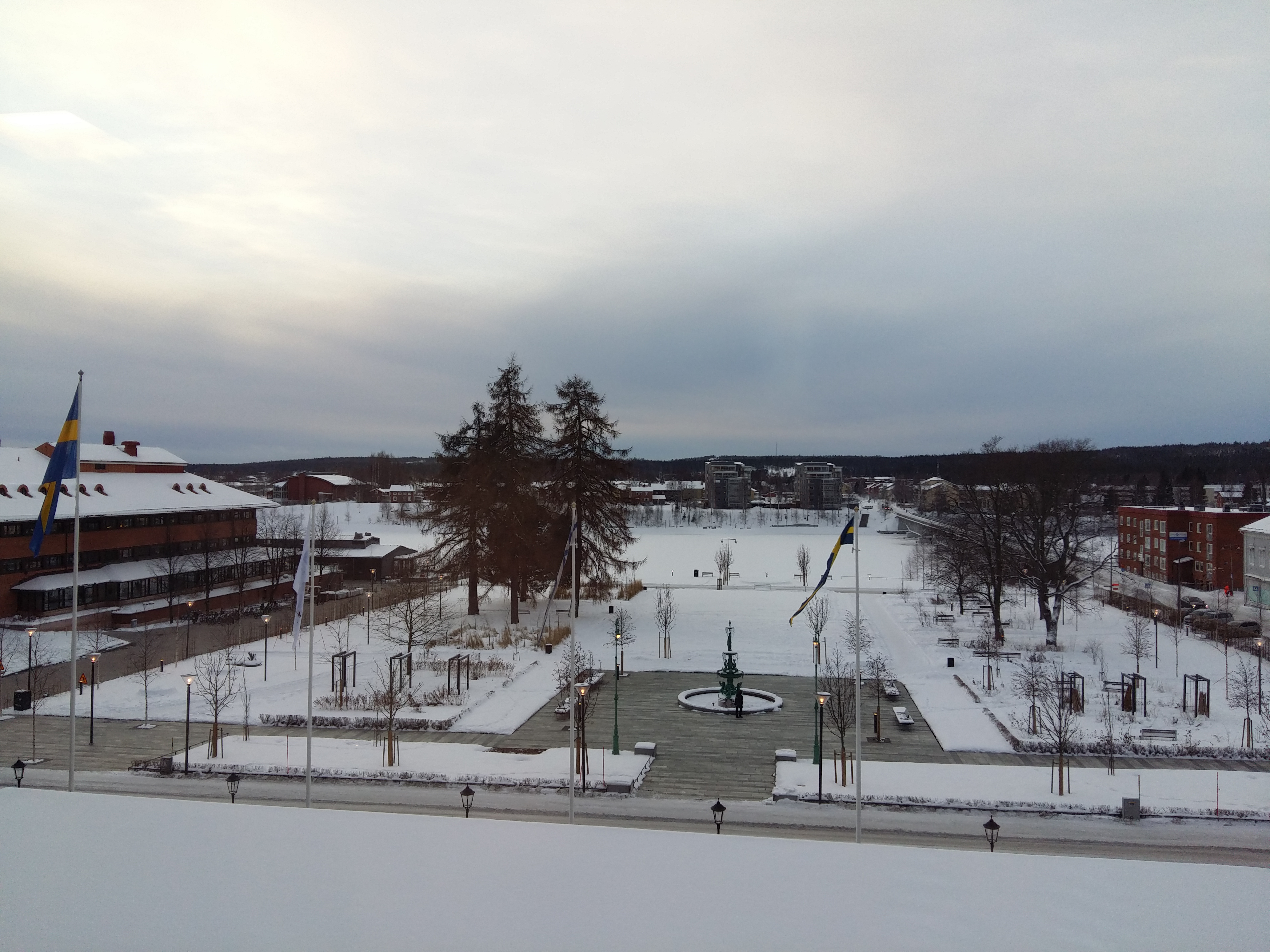 Skellefteå city hall and city park